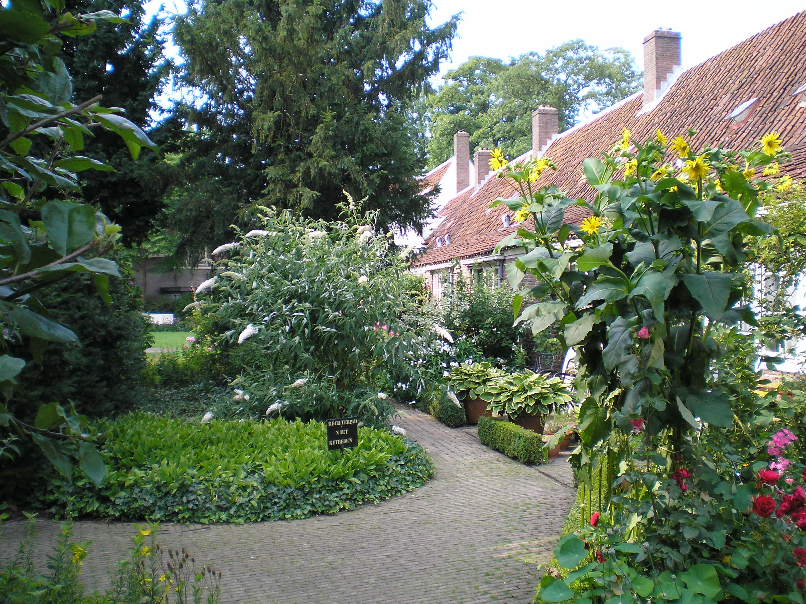 Bruntenhof Garden in Utrecht in the Netherlands